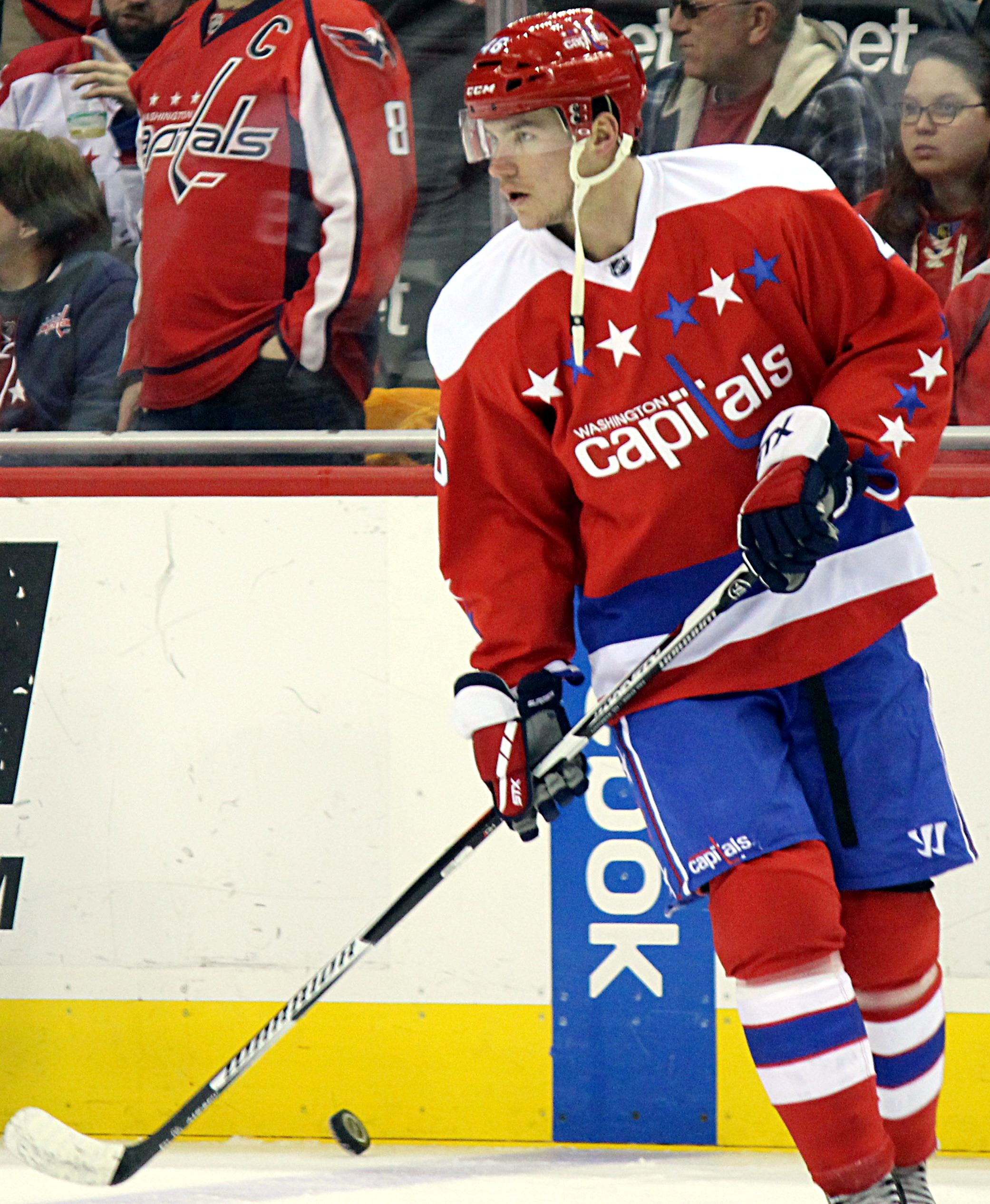 Washington Capitals forward Michael Latta during a game against the Pittsburgh Penguins, March 1, 2016, at Verizon Center in Washington, D.C.